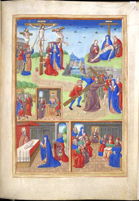 This is a remarkably large and lavishly illuminated Book of Hours, combining French and English styles. The first leaf contains a list of obits members of the royal family and of the 4th, 5th, and 6th Earls of Ormond and their wives, so it was probably made for Anne Boleyn's grandfather, Thomas Butler (1426-1515), 7th Earl of Ormond, or a member of his family. It was given in the early 16th century to a chapel at 'Suthwyke', probably Southwick in Hampshire. With no clear rationale for the selection of scenes or their arrangement, this miniature, the right-hand side of a double-page scheme, includes the Presentation in the Temple, Christ Among the Doctors, the Betrayal and Arrest of Christ, Christ before Pilate, the Carrying of the Cross, Crucifixion, Pieta, and Entombment.